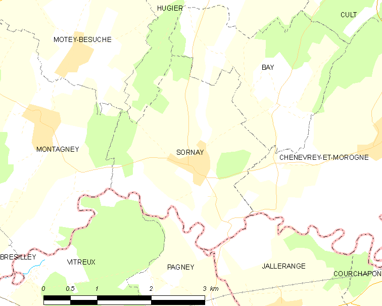 Map of French municipality